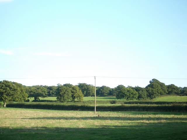 Stockbridge Oak: Pastureland